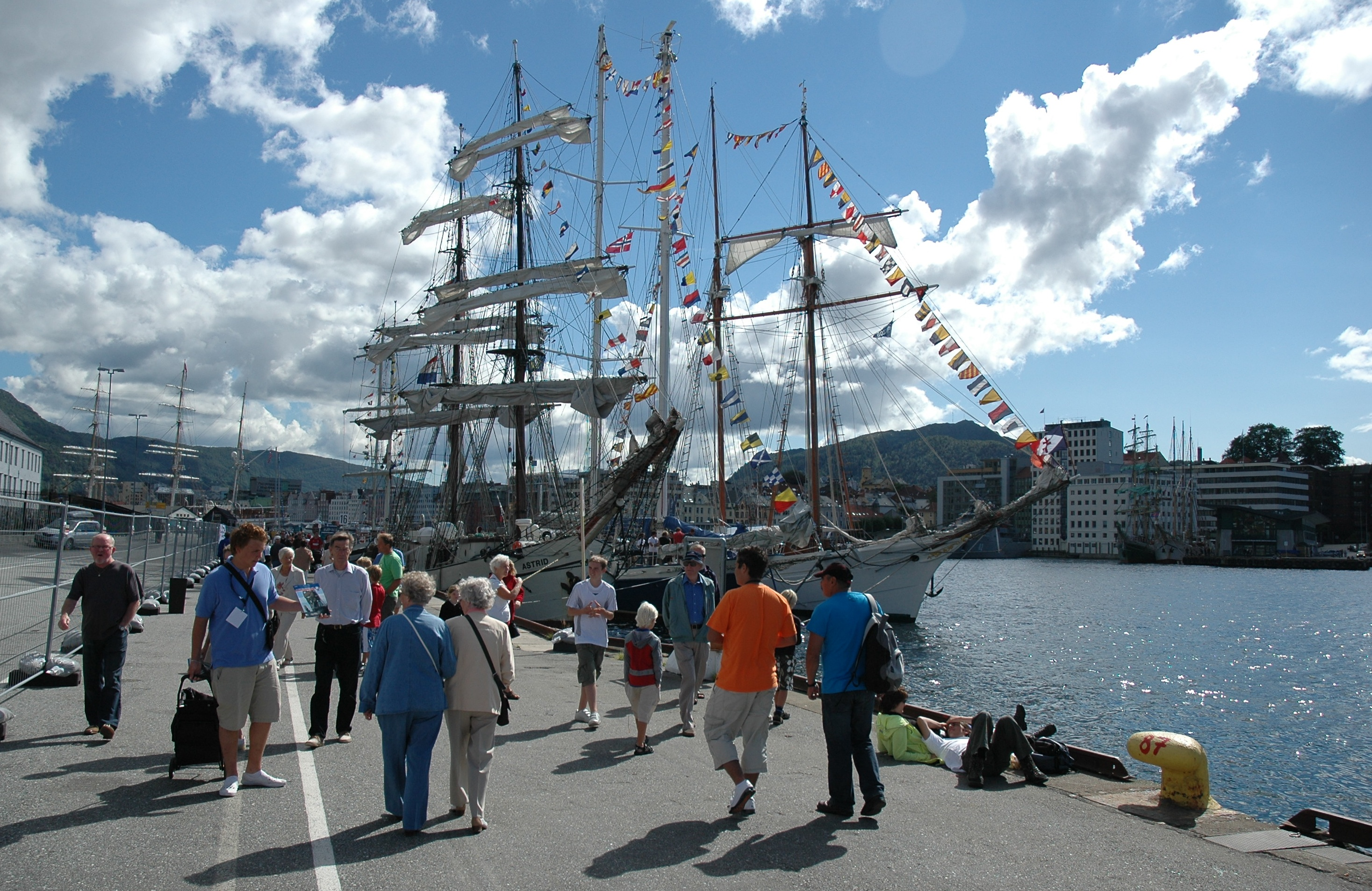 Tall ships in Bergen Astrid: IMO Number: 5027792 MMSI Number: 244361000 Callsign: PCDS Length: 42.0m Beam: 7.0m